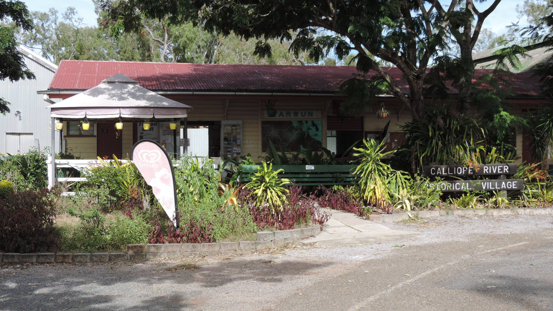 Village Kiosk (formerly Yarwun Railway Station), relocated in 2003 to Calliope River Historical Village, 2014